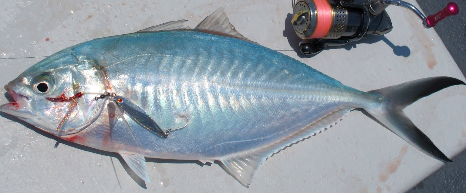 Taken from Port Douglas